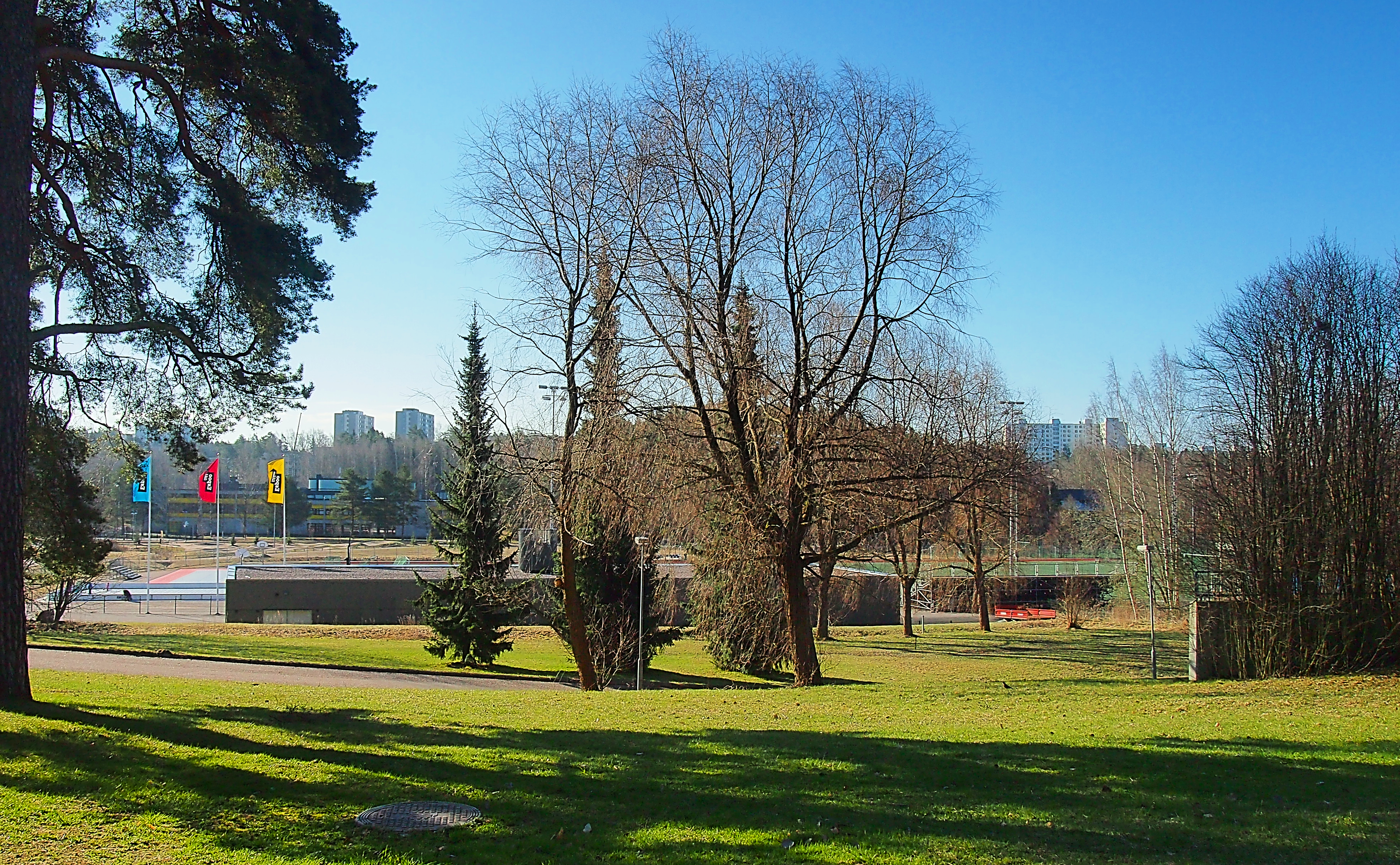 The Espoonlahti Sports Park, Espoonlahden urheilupuisto, Espoo, Finland